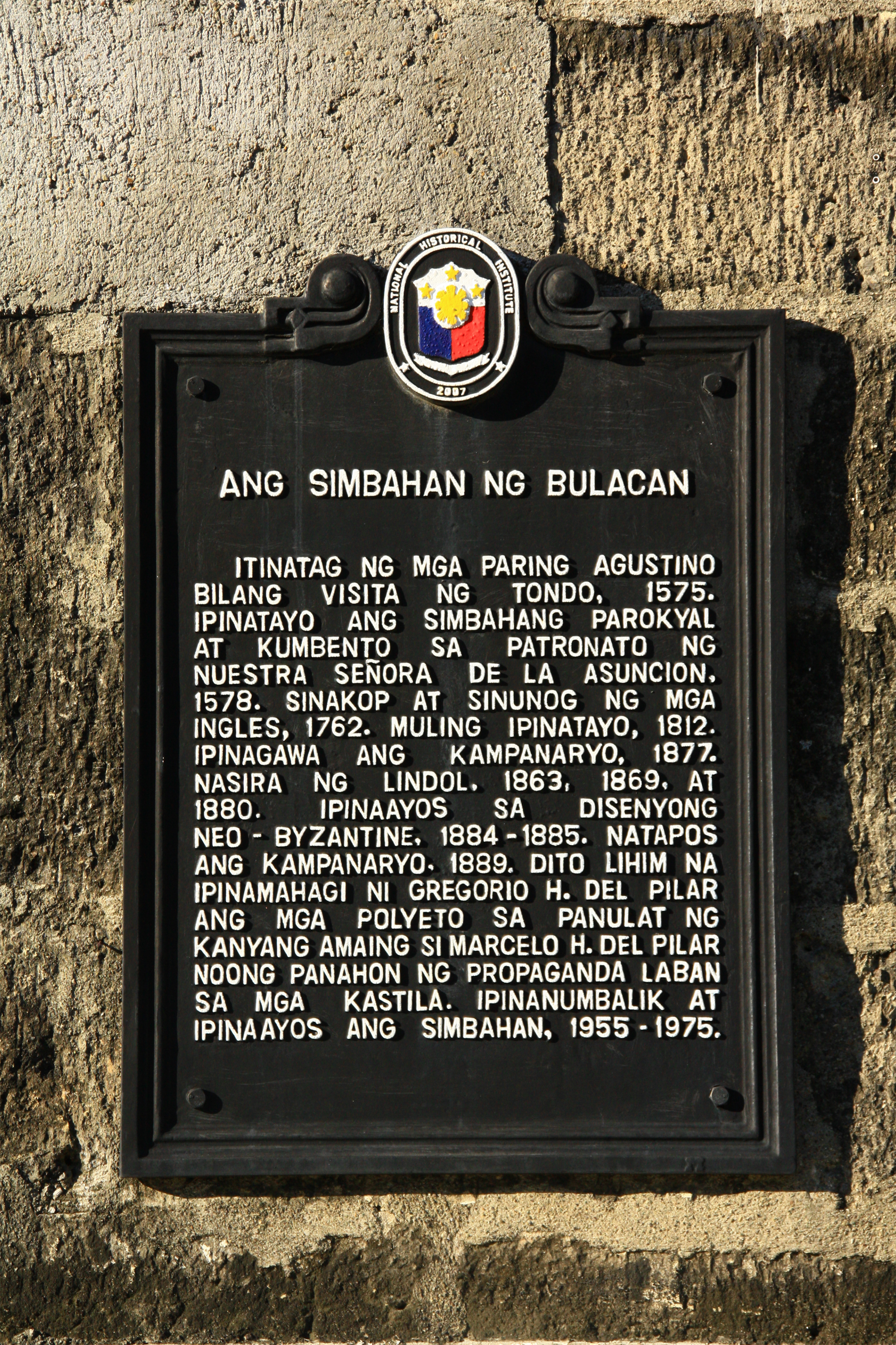 Church of Bulacan in Bulakan, Bulacan installed in 2007